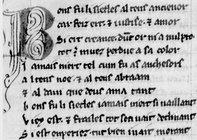 First ten lines of the Vie de saint Alexis, first column, f. 26v. ms. 19525 of the BnF.